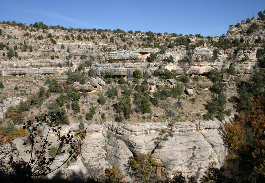 North wall of Walnut Canyon showing changes in lithology, and a few cliff dwellings at center. Kaibab Formation at top, Toroweap Formation in middle, Coconino Sandstone at bottom (probably). Oct. 2008. Jim Stuby (talk) 02:03, 1 November 2008 (UTC)